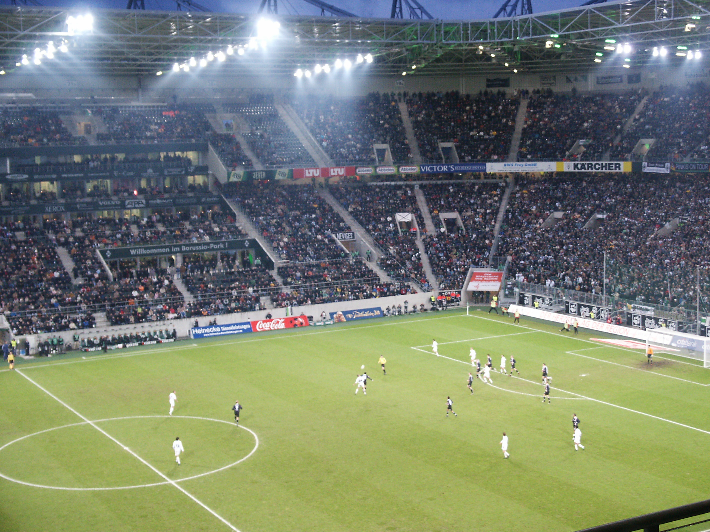 Floodlight in the Stadium in the Borussiapark in Moenchengladbach, Germany (Borussia Mönchengladbach vs. Eintracht Frankfurt)